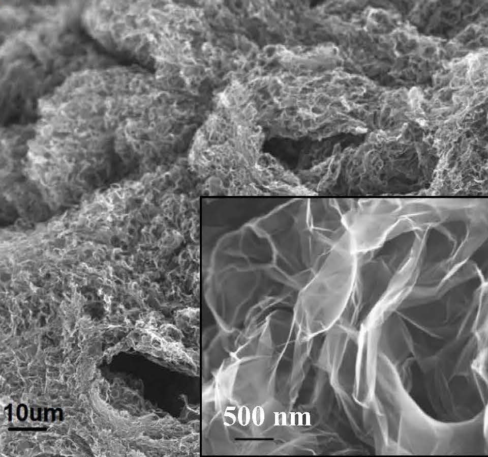 Scanning Electron Microscope (SEM) image of graphene foam